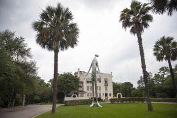 The Contemporary Austin - Betty and Edward Marcus Sculpture Park at Laguna Gloria. View of "Looking Up" (2015 by Tom Friedman. Courtesy the artist and Luhring Augustine, New York.